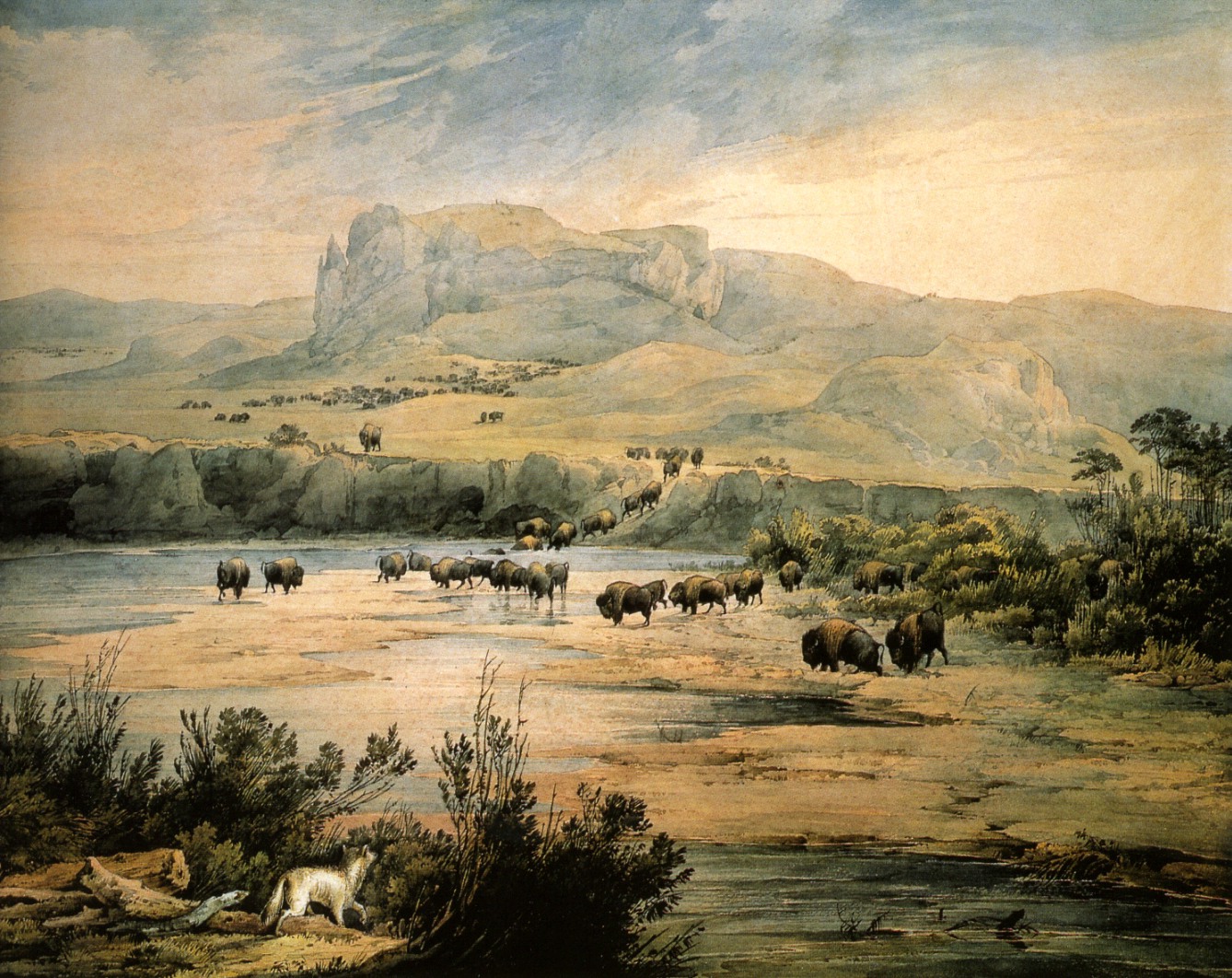 Landscape with buffalo on the upper Missouri. Watercolor by Karl Bodmer 1833.